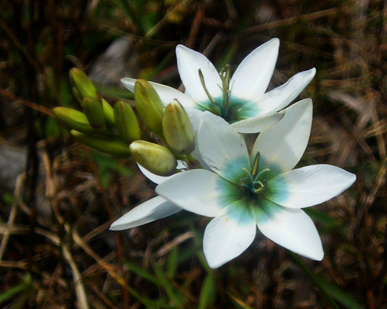 Ixia